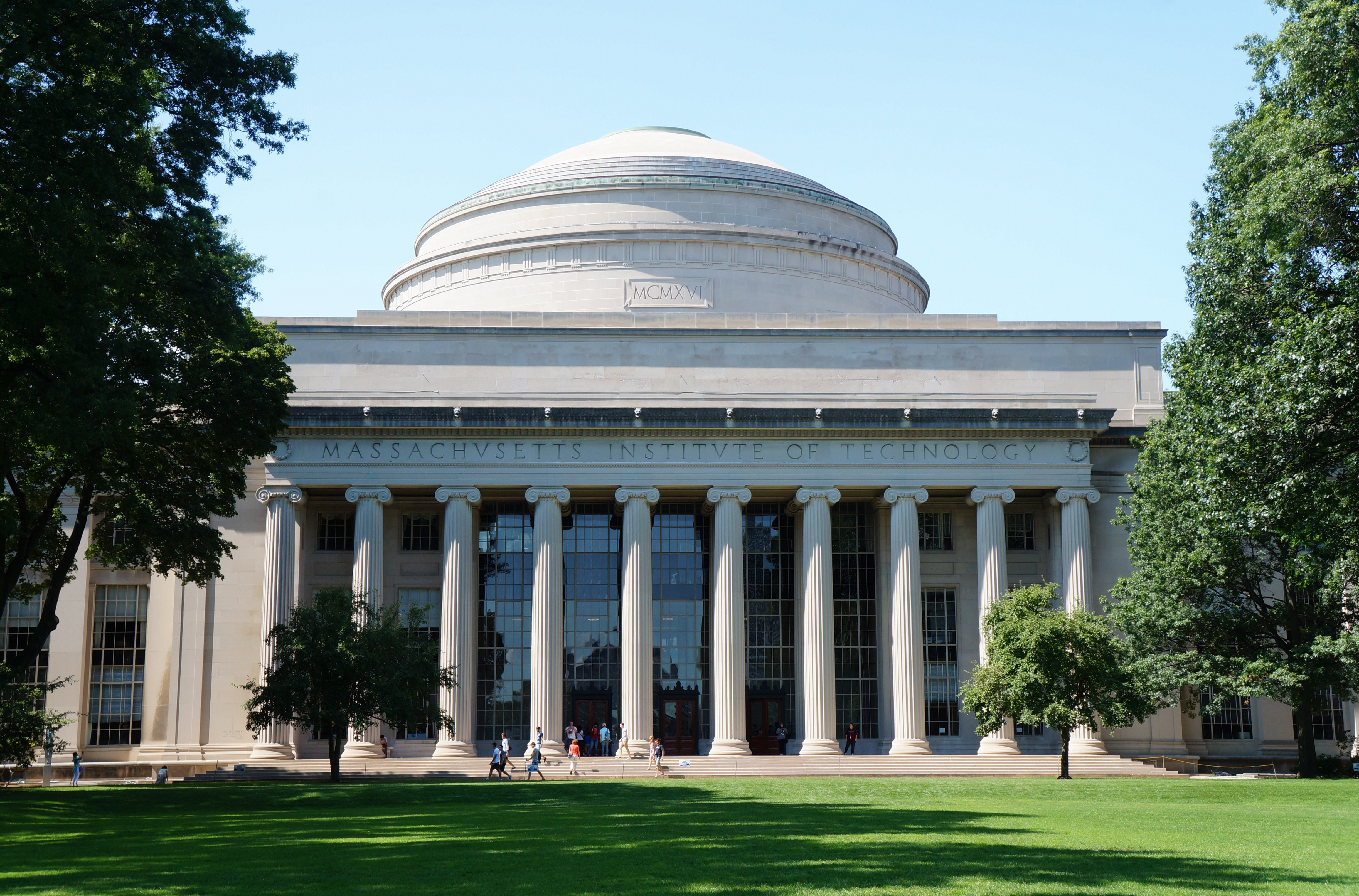 Massachusetts Institute of Technology (MIT)